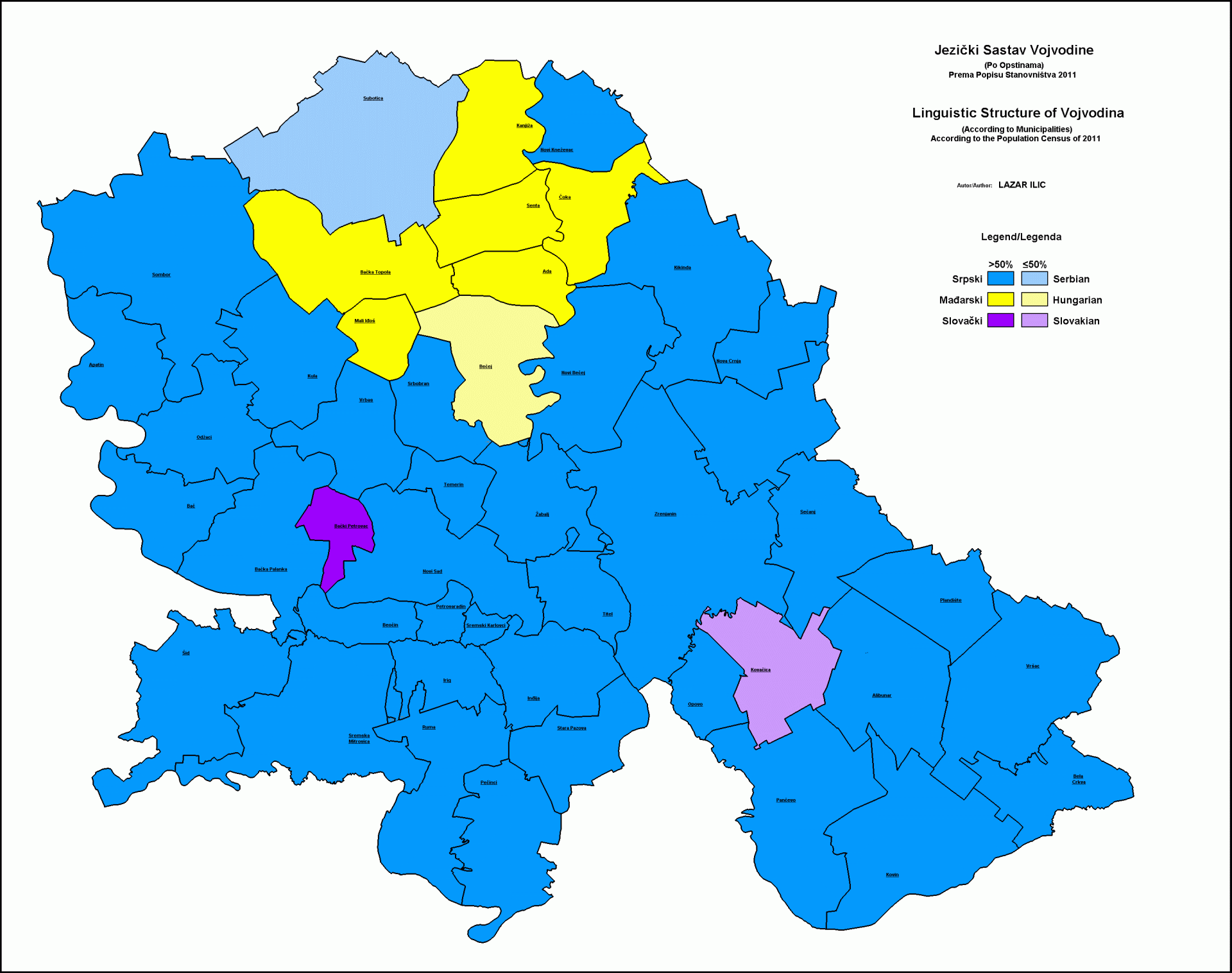 Linguistic map of Vojvodina, 2011.